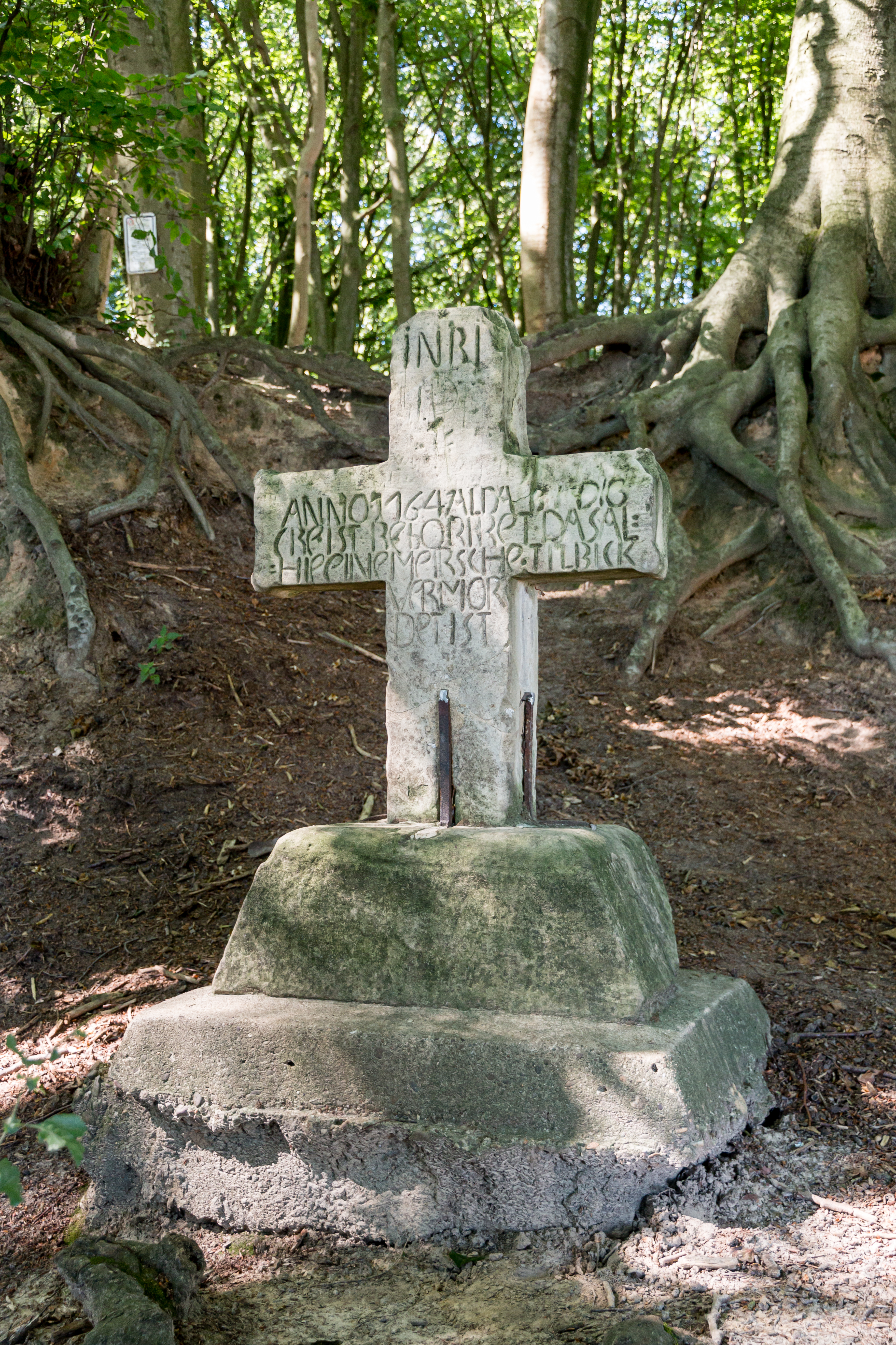 “Mordkreuz der Mersche von Tilbeck”, Havixbeck, North Rhine-Westphalia, Germany This is a picture of the protected area listed at WDPA under the ID 378156 47). Sculpture TitleMordkreuz der Mersche von TilbeckArtistUnknown artistDateUnknown dateUnknown date